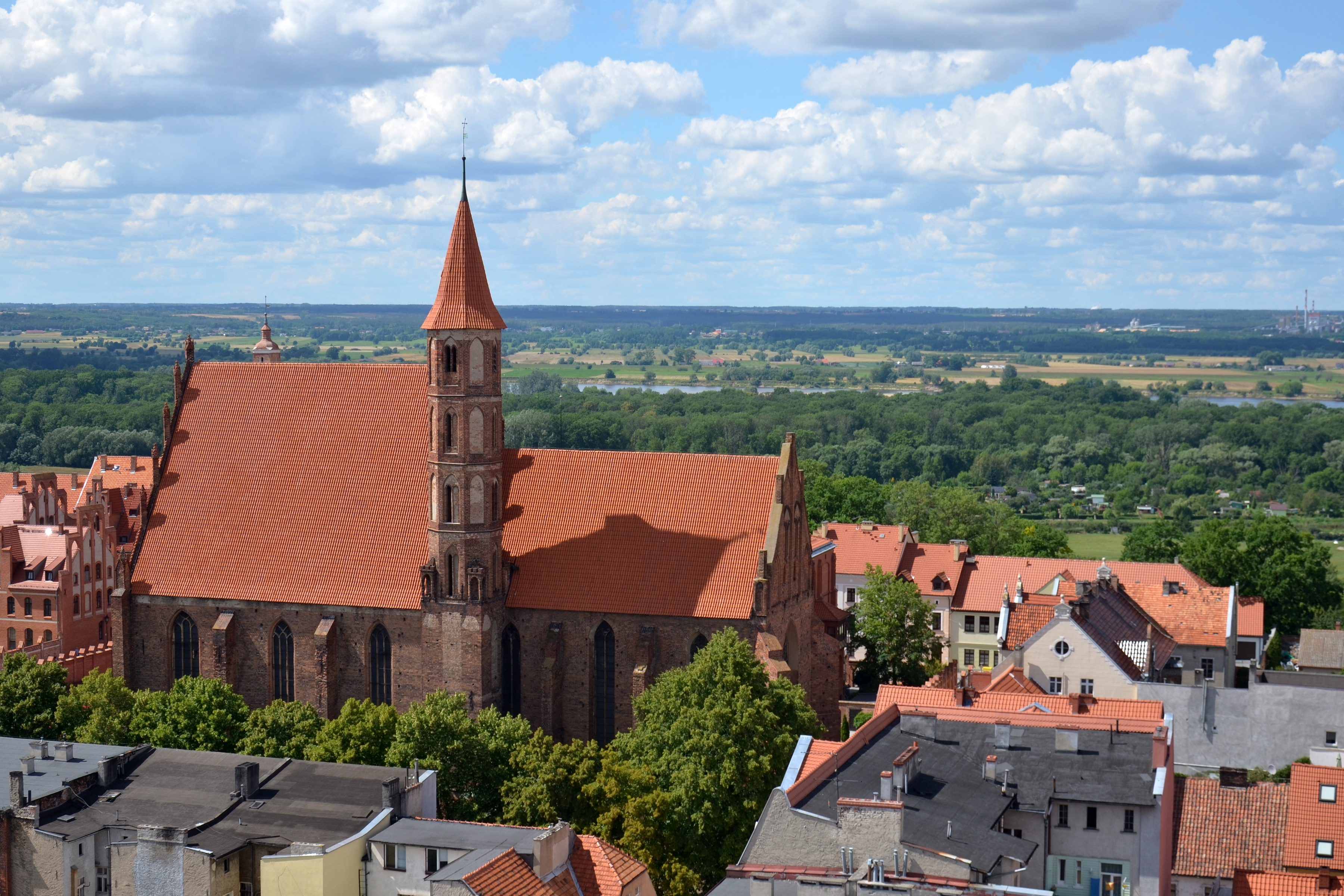 Chełmno, church of St. James and St. Nicholas, view from the tower of Assumption of the Blessed Virgin Mary church